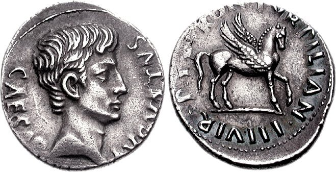 Augustus. 27 BC-AD 14. AR Denarius (3.58 g, 8h). Rome mint. P. Petronius Turpilianus, moneyer. Struck 19 BC. Bare head right Pegasos walking right. RIC I 297; RSC 491. Good VF, toned.